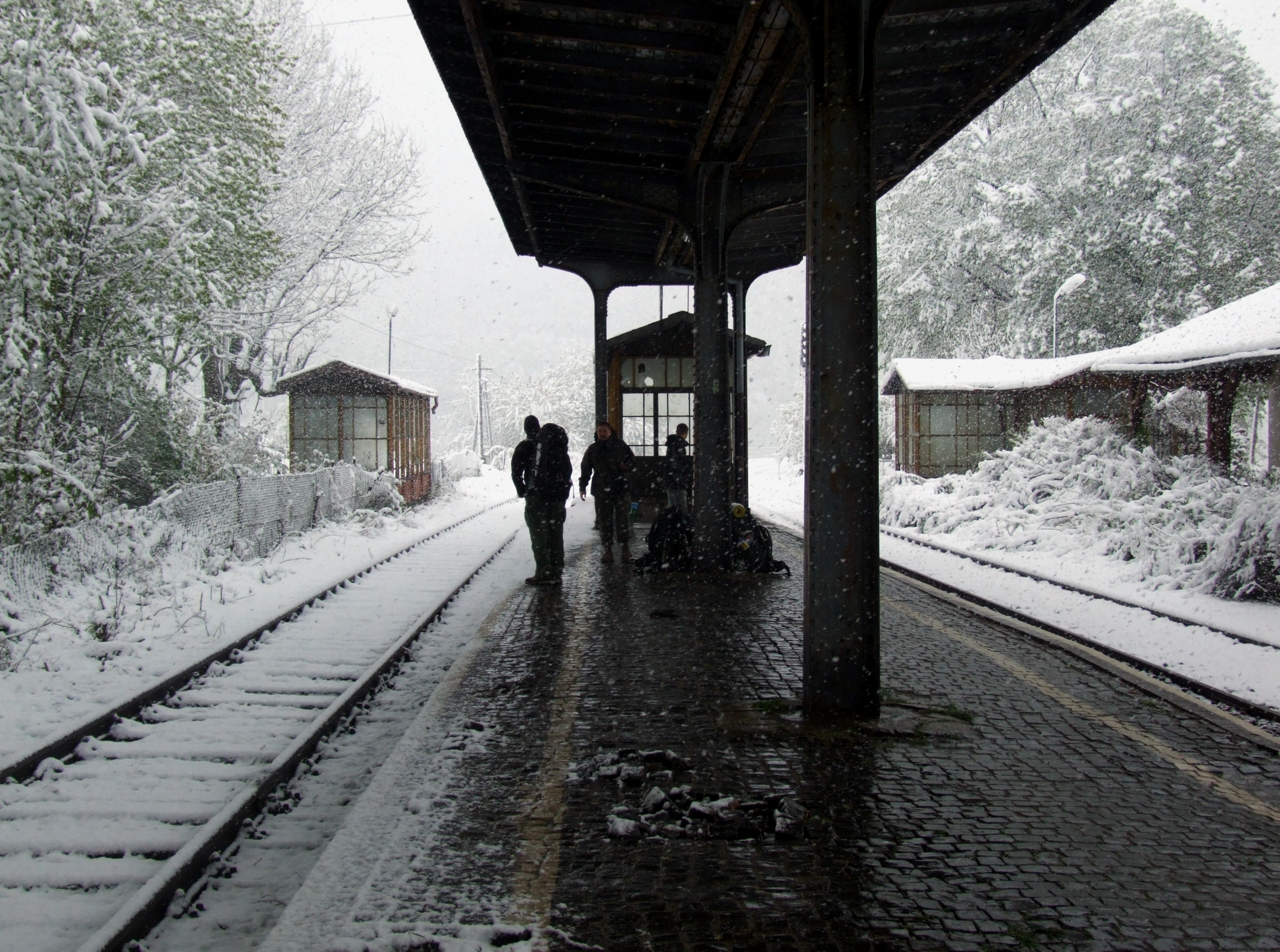 Train station in Ludwikowice Kłodzkie (Ludwigsdorf), Lower Silesian Voivodeship in Poland